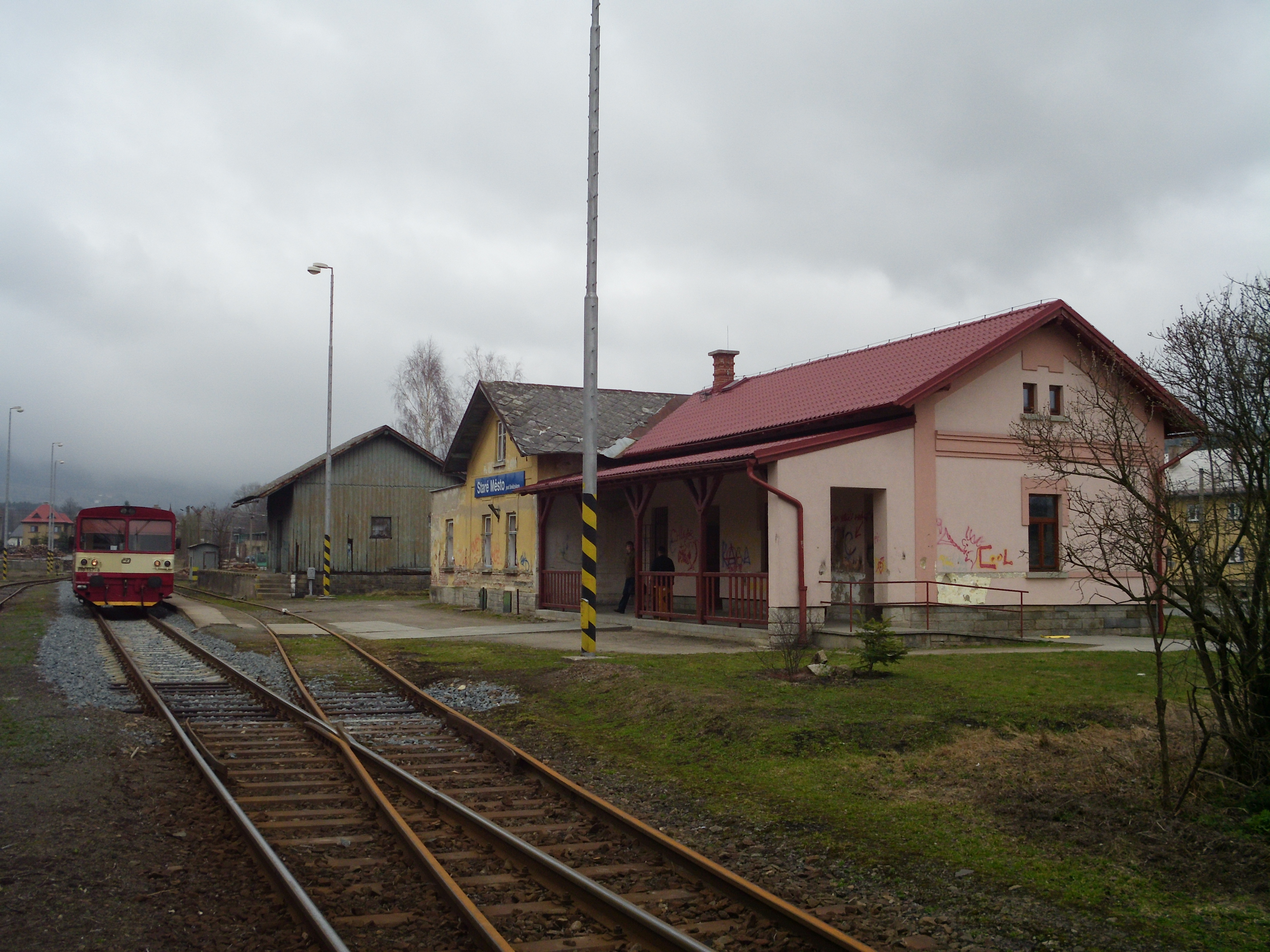 Train station in Staré Město pod Sněžníkem, Czech Republic